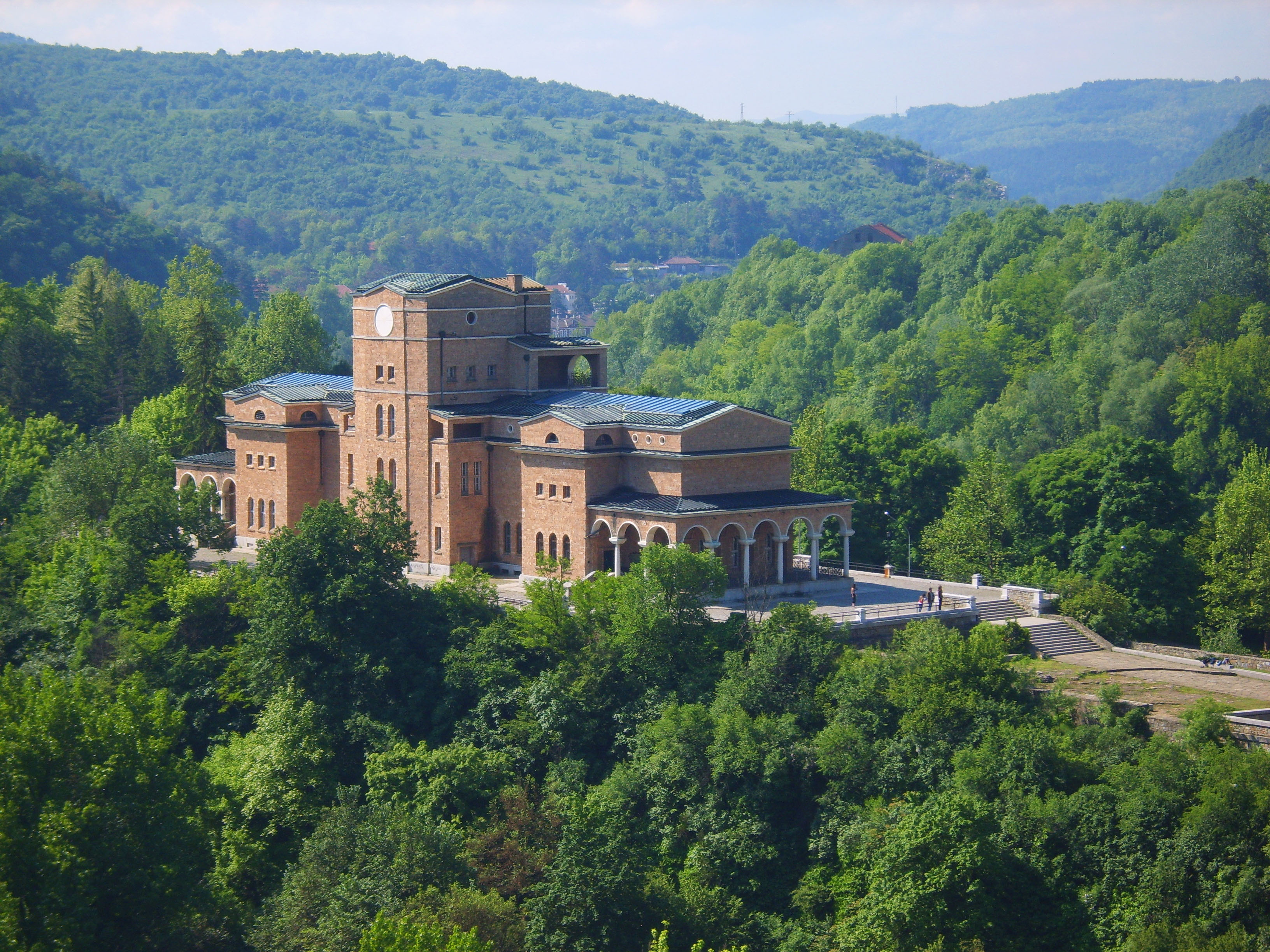 Town Gallery in Veliko Tarnovo